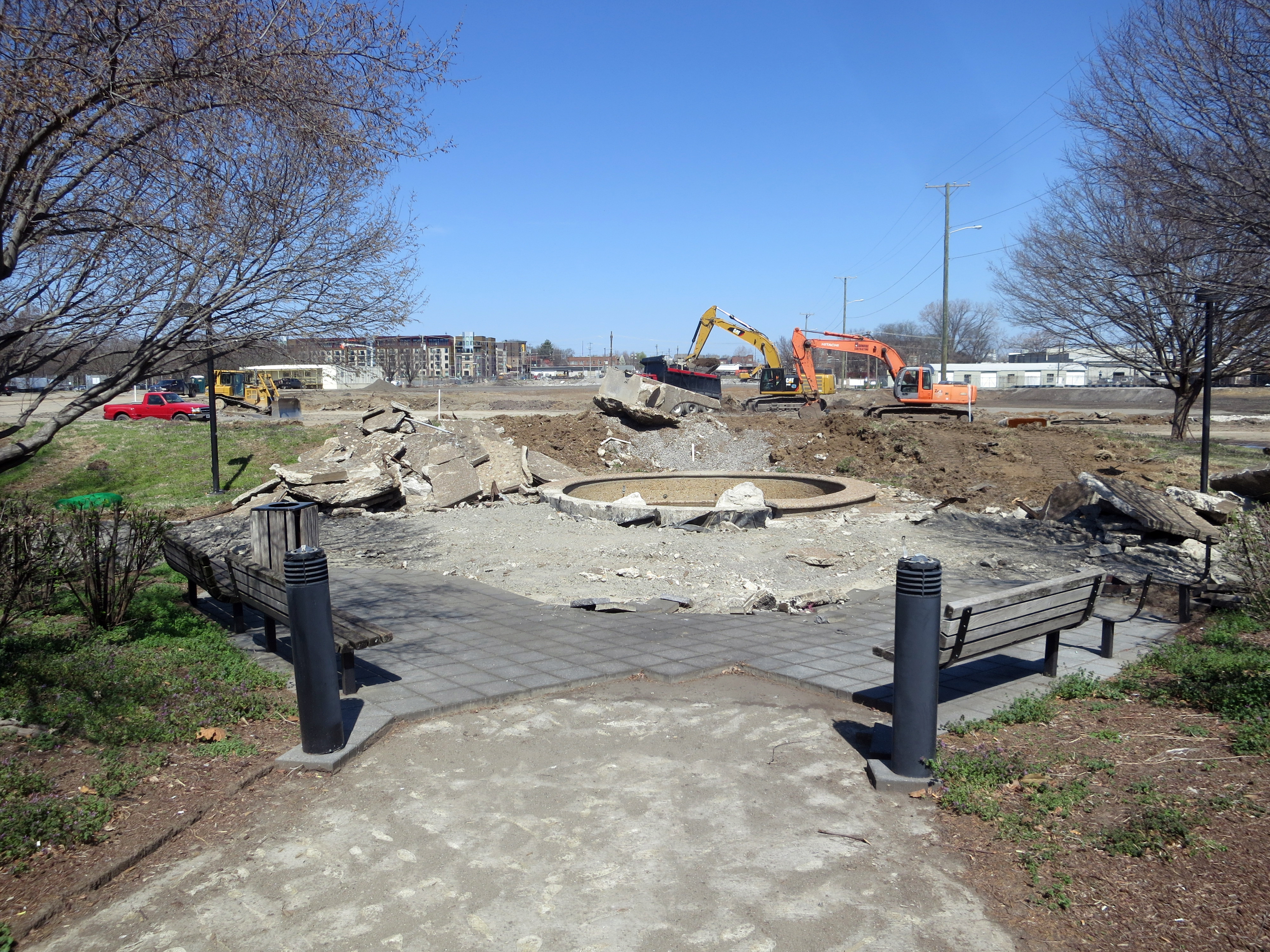 The former site of Sulphur Dell, a minor league baseball park in Nashville, Tennessee, as construction begins on a new ballpark (First Tennessee Park) in 2014